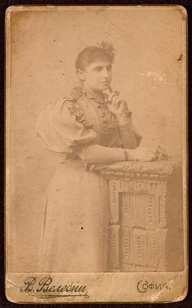 Boyanka Hristova Miladinova 12 May 1898 Sofia V Velebni